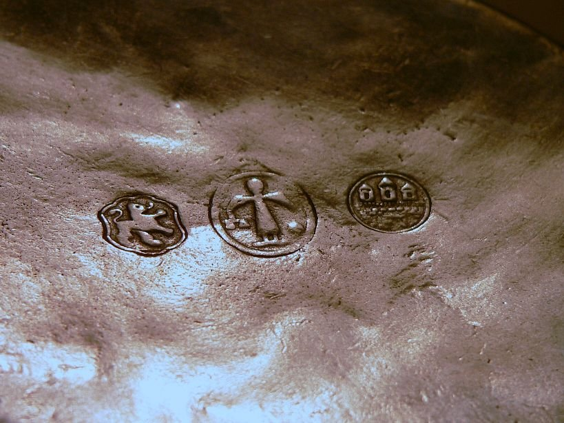 hallmarks on a tin ashtray, probably bavarian